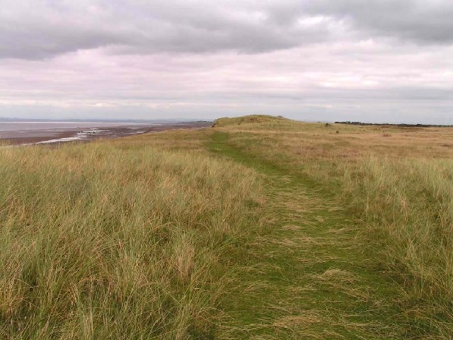 Mawbray Bank, looking north. This stretch of dune slack running along the southern shore of the Solway estuary is classified as an AONB.